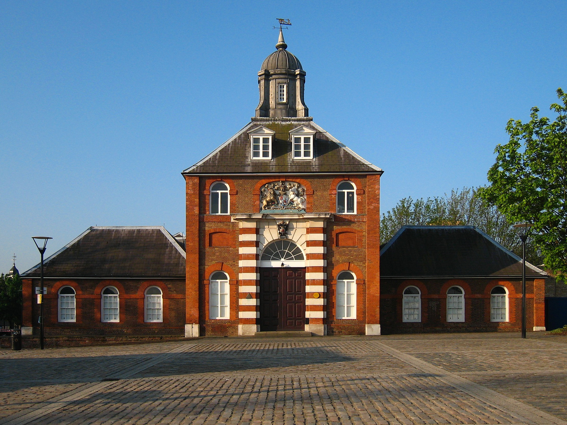 Royal Arsenal Wikidata has entry Q2170996 with data related to this item.